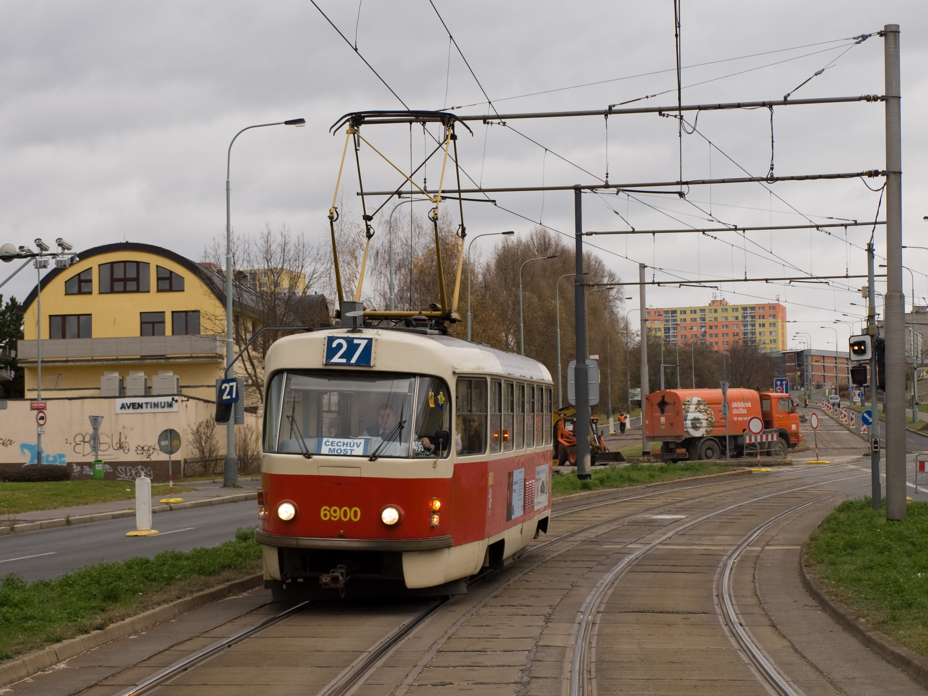 Poliklinika Modřany, Tatra T3 registration number 6900 at line 27, Prague